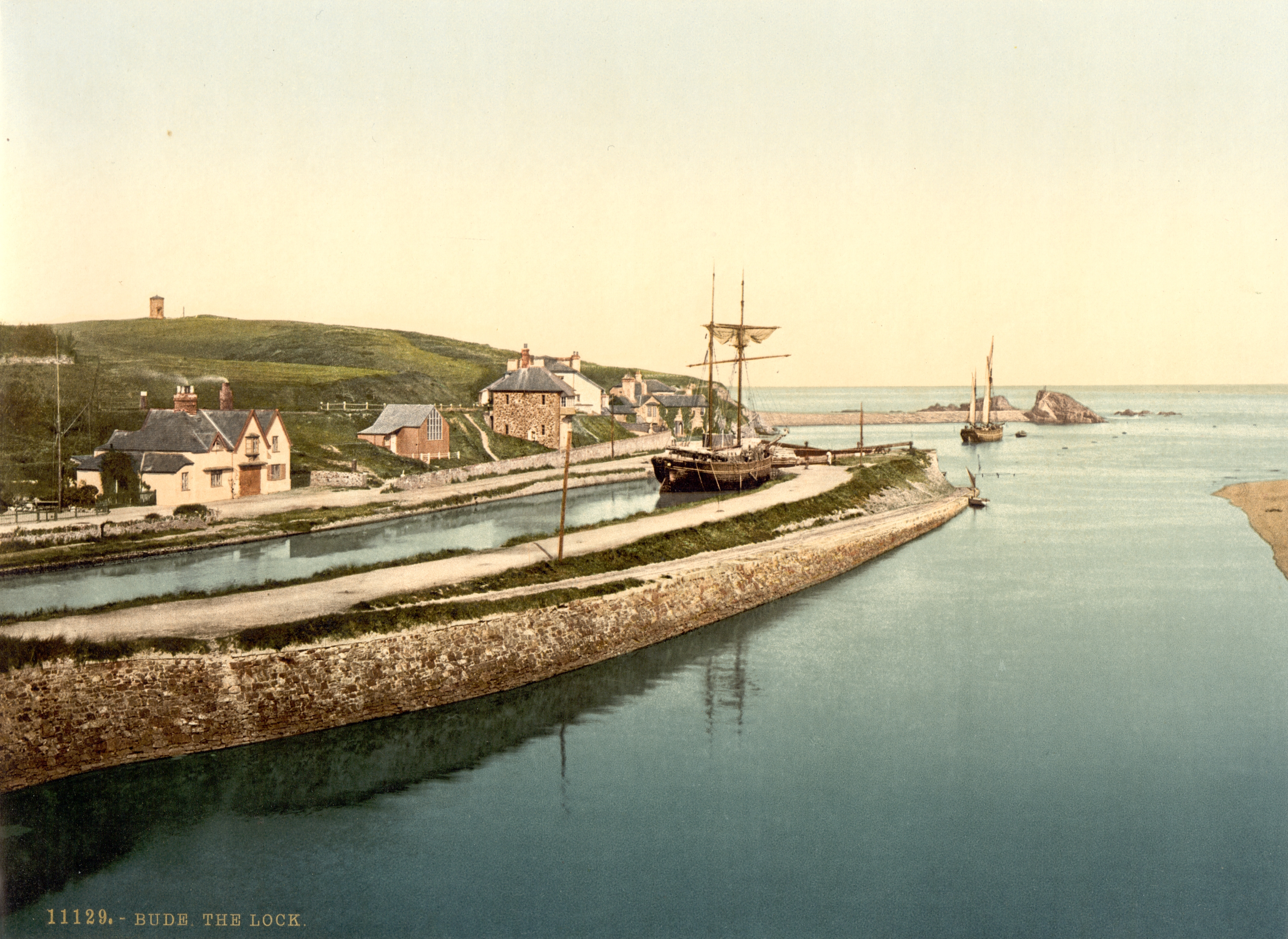 Photochrome of the sea look on the bude canal with the tide in a ship on the canal